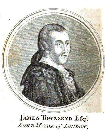 Portrait of James Townsend (1737–1787), English politician. From London Magazine: or, Gentleman's monthly intelligencer for November 1772.